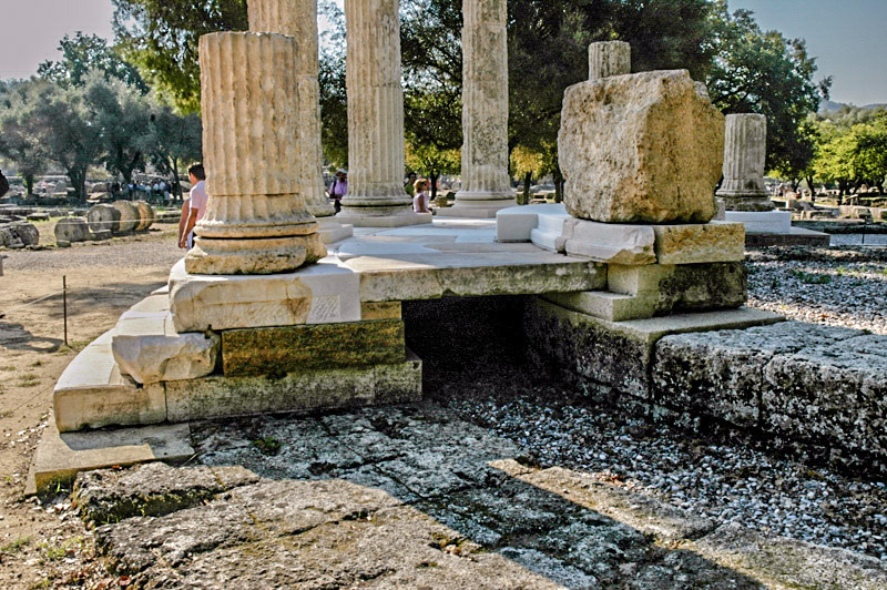 J. Matthew Harrington, personal